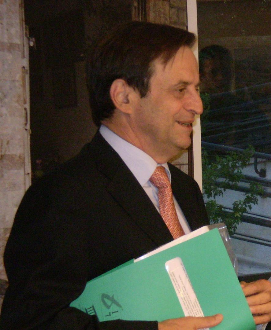 Dan Meridor